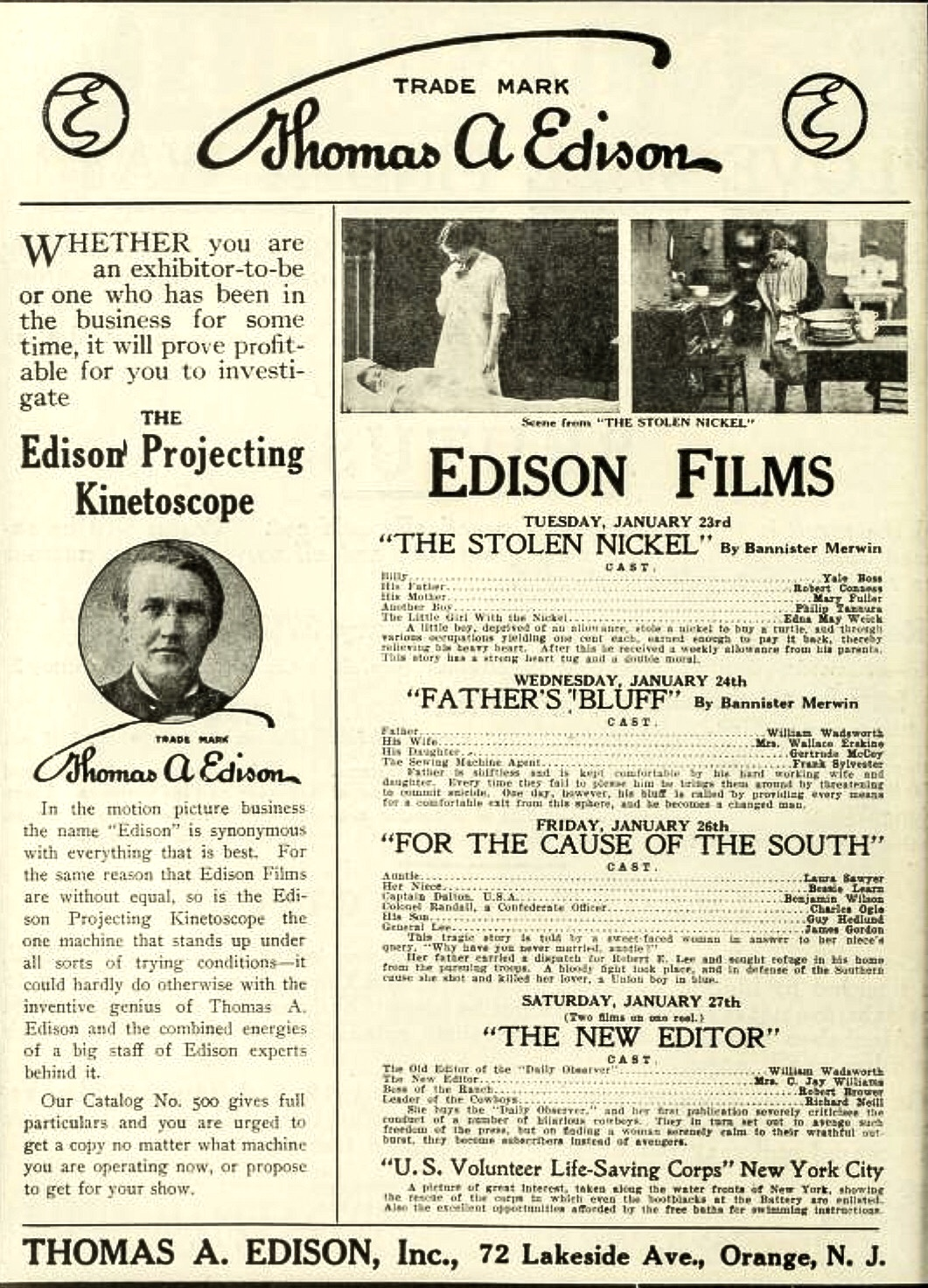 Advertisement for films to be released by Edison Studios in late January 1912; published in the trade journal The Moving Picture World, (New York, N.Y.), January 20, 1912, p. 182. Internet Archive. Retrieved June 9, 2020.